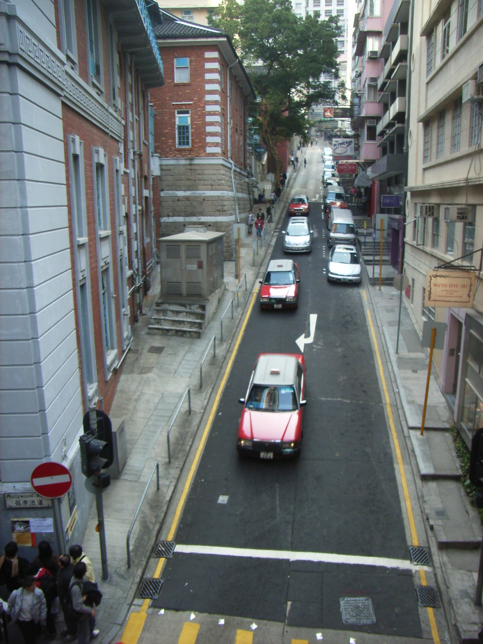 奧卑利街 Old Bailey Street